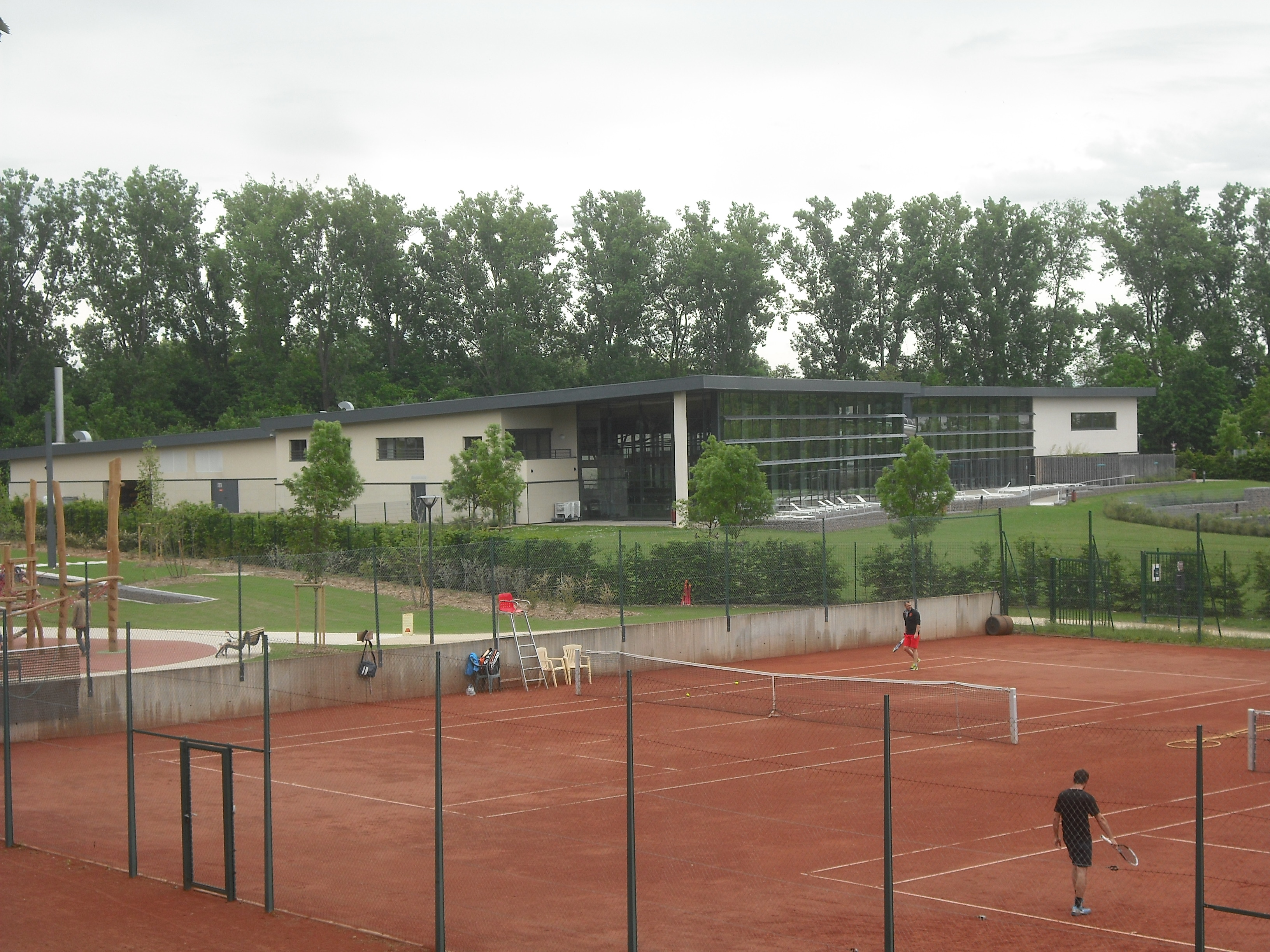 Piscine et cours de tennis, Sélestat, France.